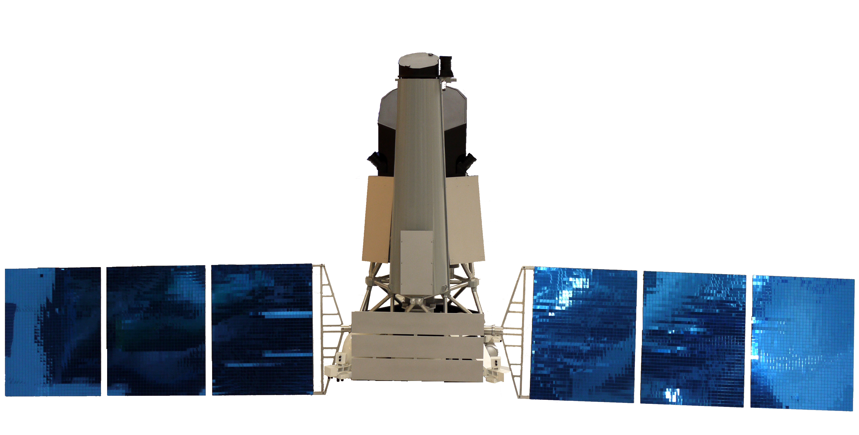 Model of Spektr-RG russian X-ray space telescope by Roscosmos at the 2011 Paris Air Show.